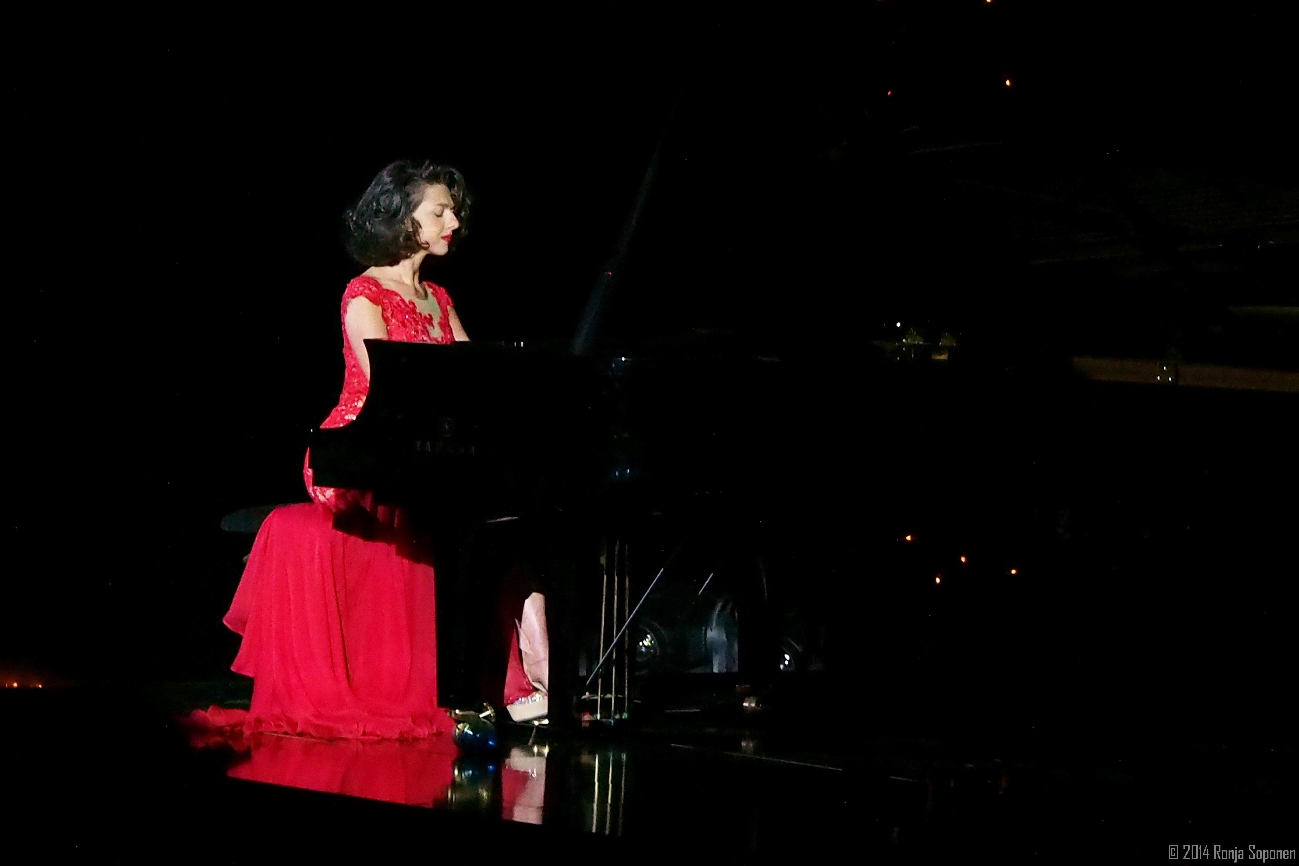 Khatia Buniatishvili by Ronja Soponen